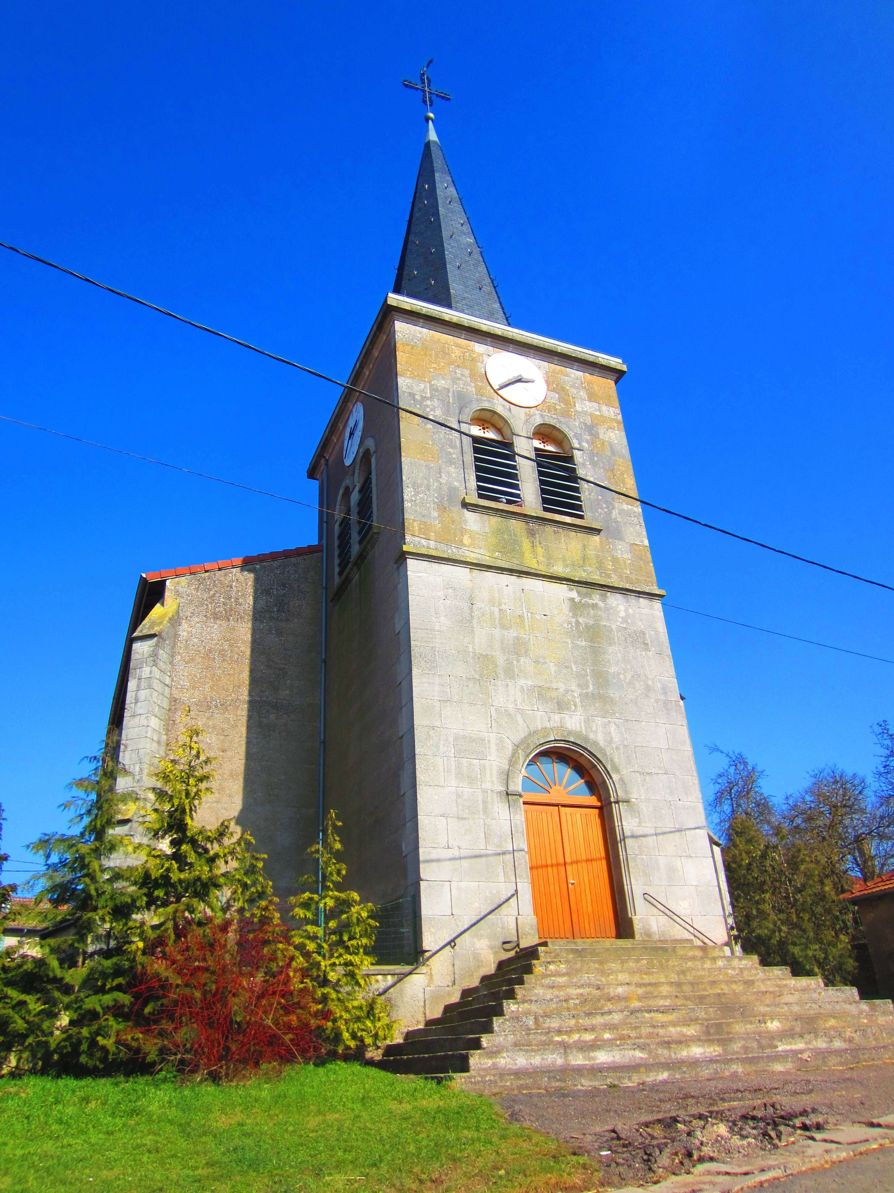 Beney Woevre church